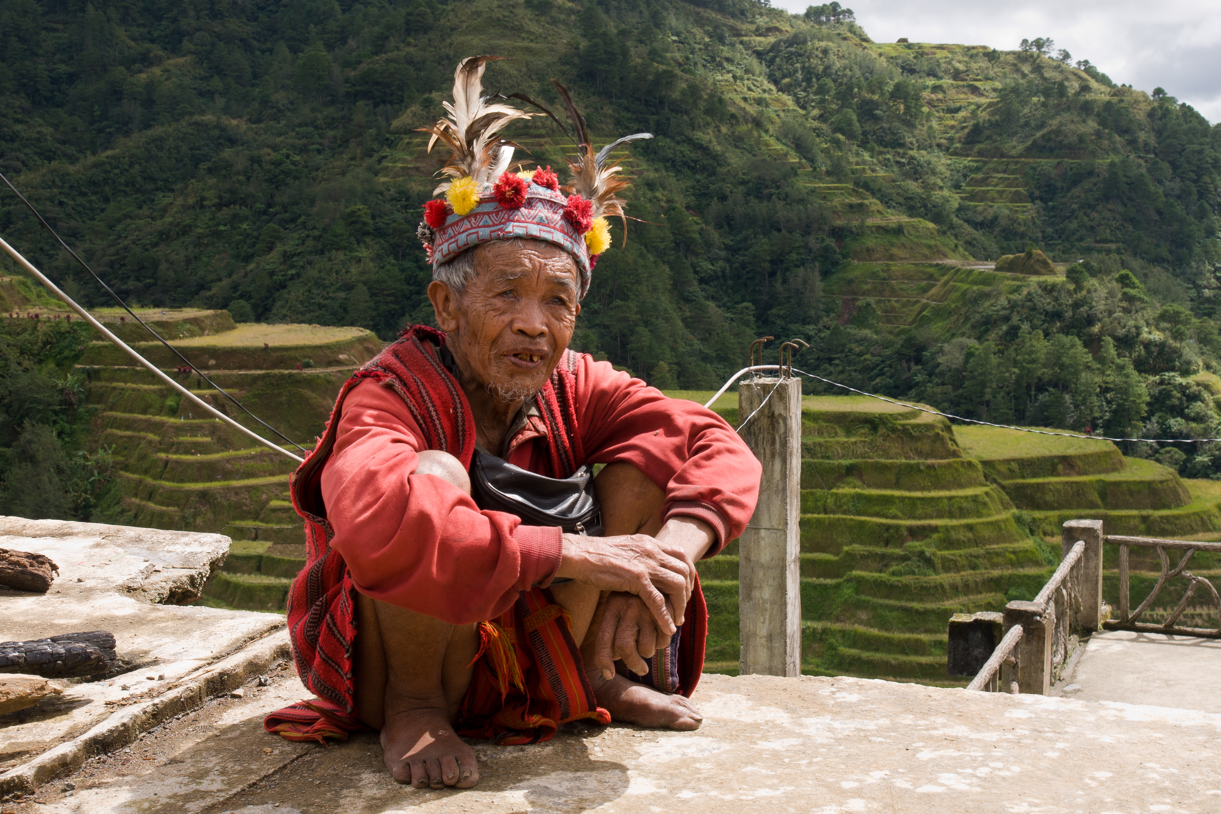 Banaue, Philippines: Man of the Ifugao tribe in traditional costume